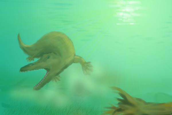 Ambulocetus swimming in a lake